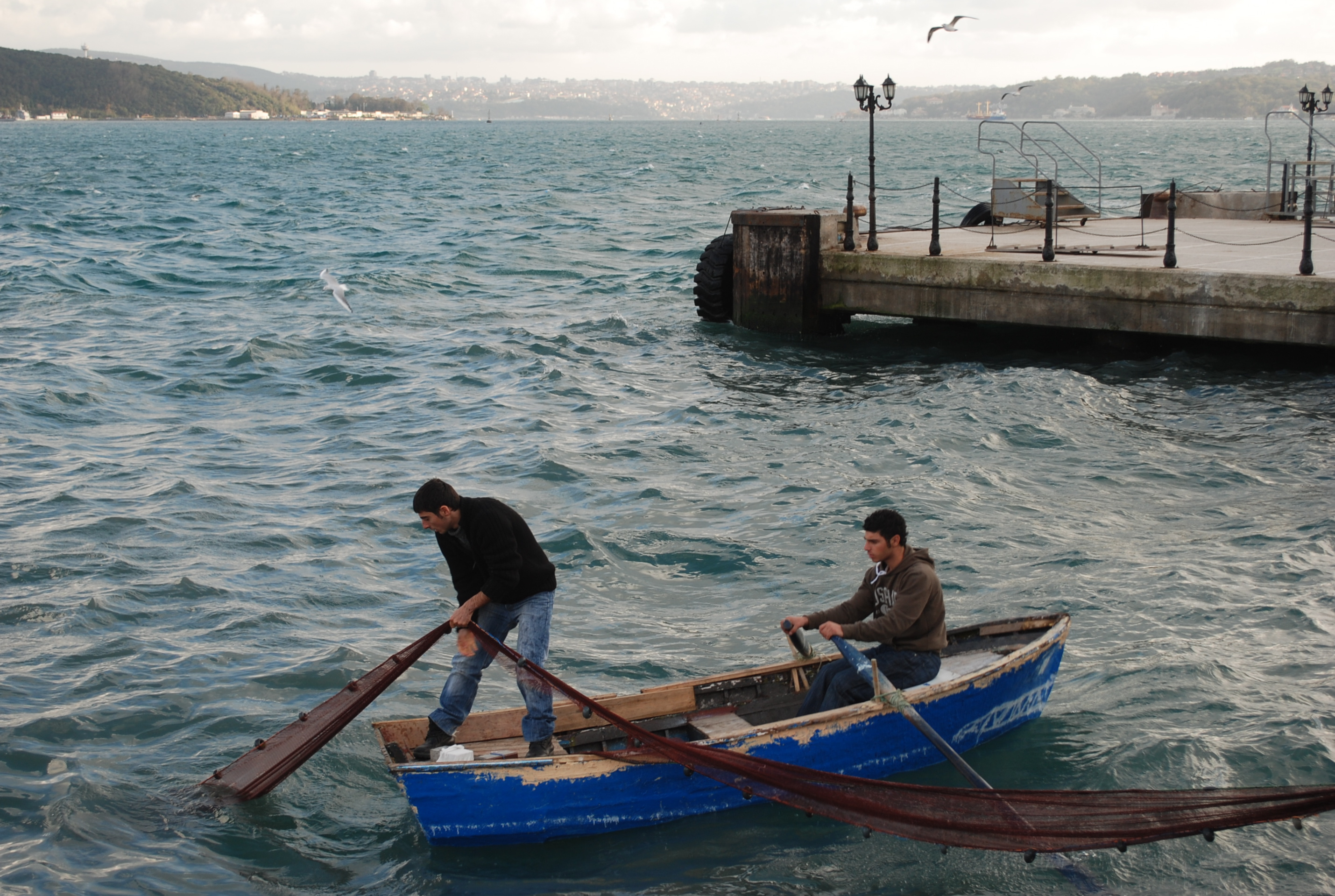 Fishing in Sayiler, Bosphorus Turkey.